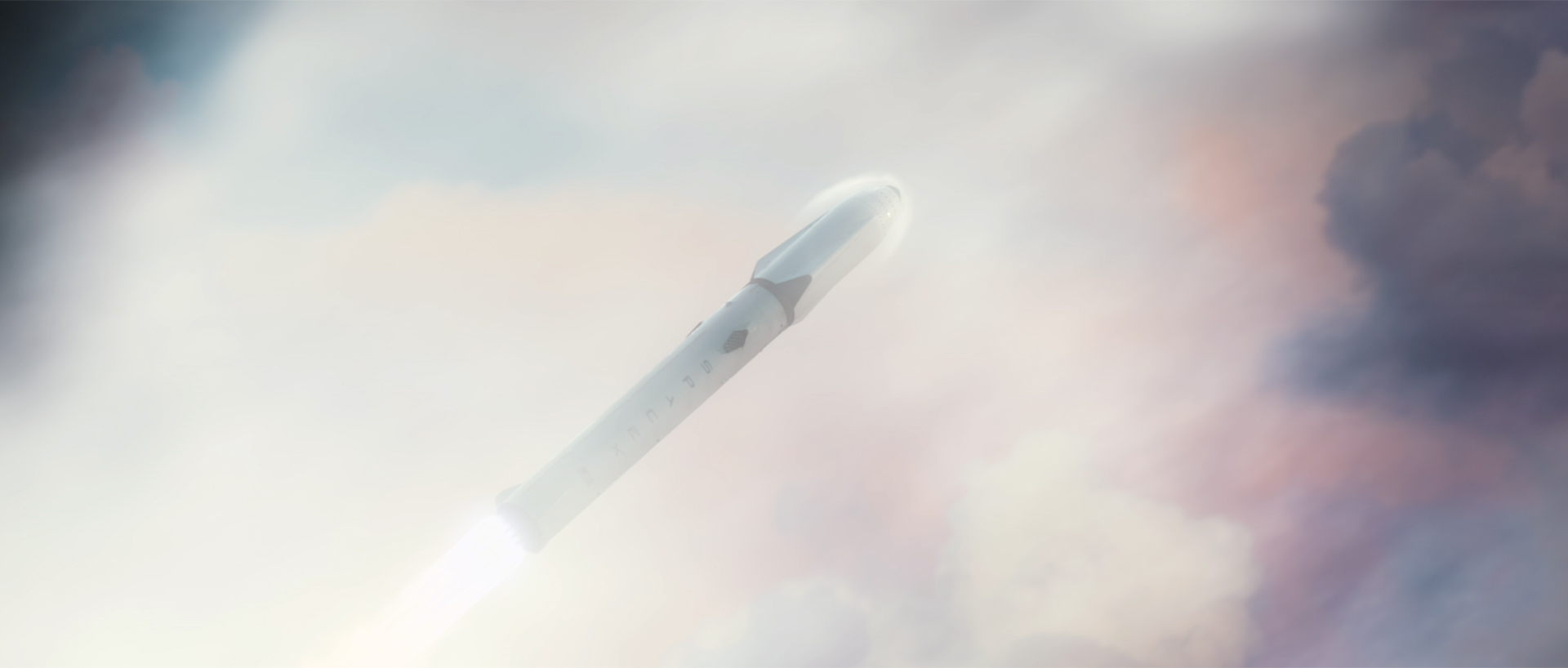 Interplanetary Transport System launch vehicle (ITS launch vehicle) ascending, at maximum dynamic pressure.